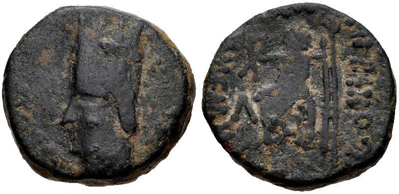 Coin of the supposed Artaxiad king Tigranes I. Some scholars don't consider him to have ever ruled.